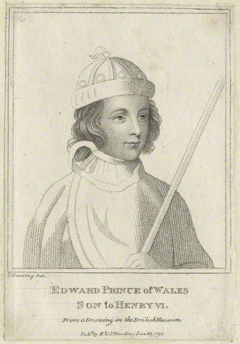 Edward of Westminster, son of King Henry VI.